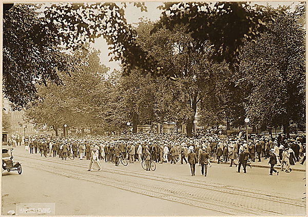 Scope and content: Full caption reads as follows: Washington crowd mobs the White House Pickets. An indignant crowd of real Americans almost did serious damage to the women suffrage pickets in front of the White House, on July 14, 1917. Although the mob started a riot the police subdued them and arrested the suffragists before they could be harmed. In all sixten women pickets were arrested. Six more suffragists were arrested on August 18, 1917, and upon their refusal to pay $10 fine were sent to Occoquan workhouse.